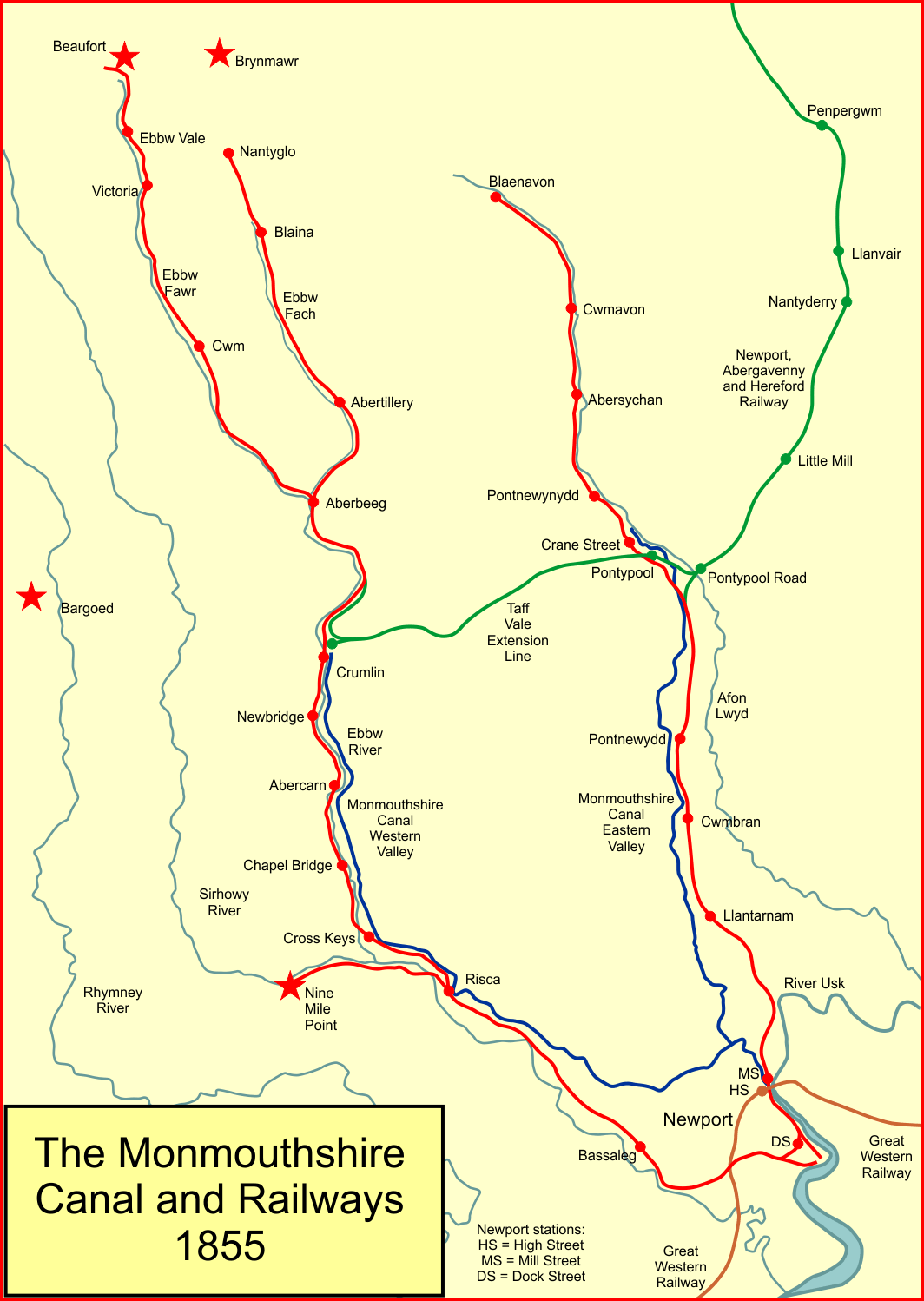 System map of the Monmouthshire Railway and Canal Company, Wales, in 1855